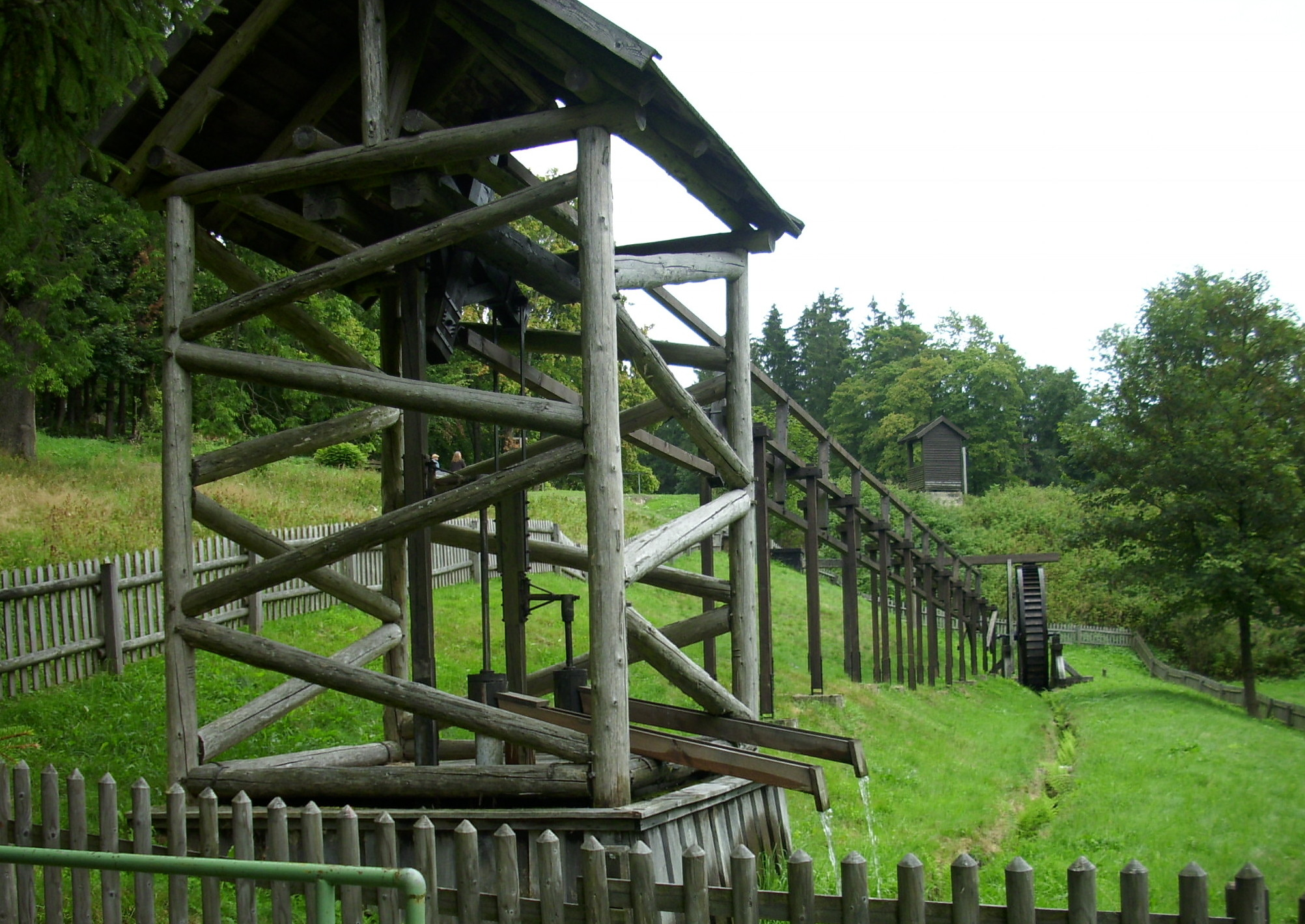 Mineshaft and flatrod system at the Carler Teich in Clausthal-Zellerfeld, Germany